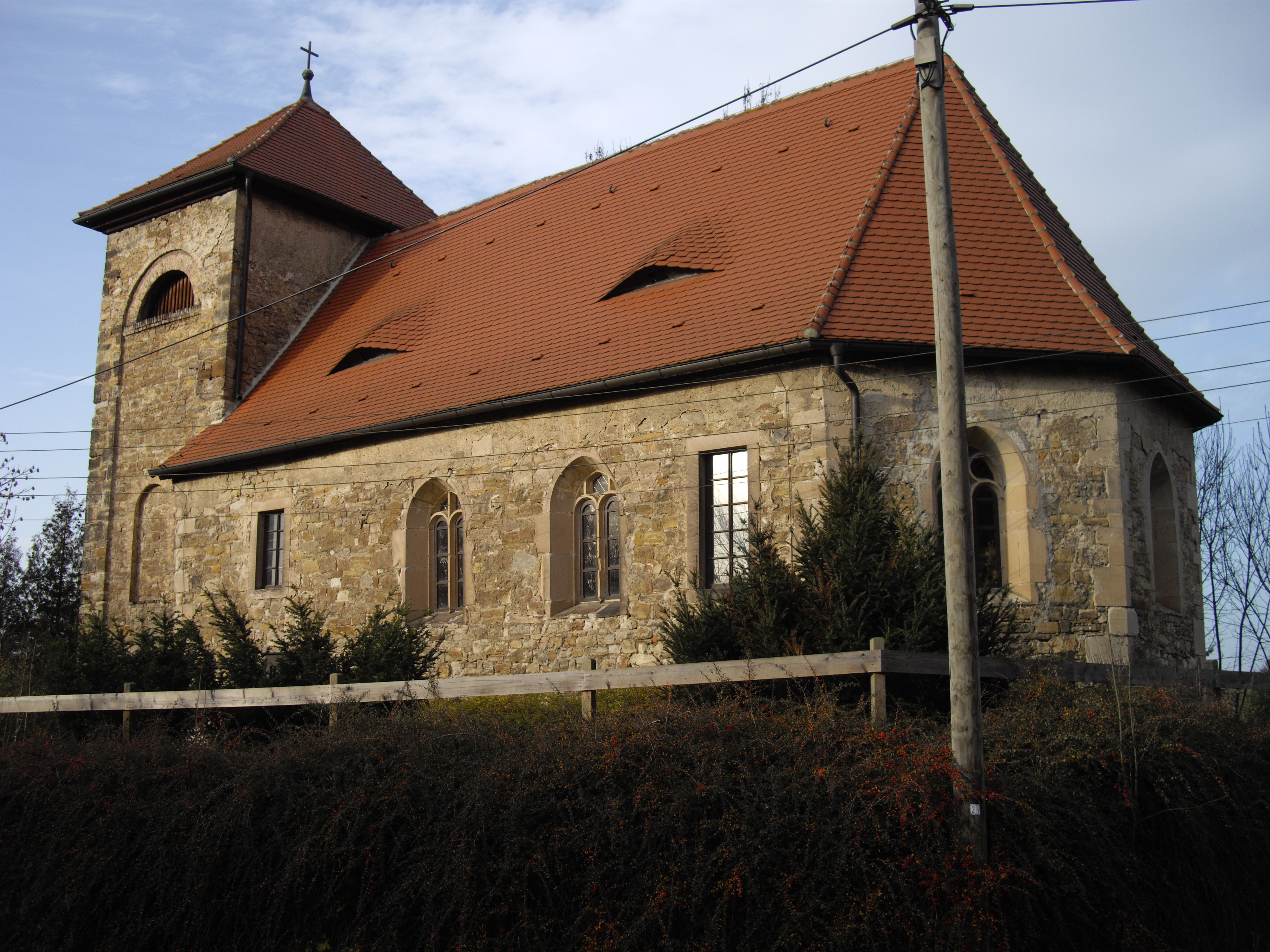 the church in Heiligenthal-Lochwitz